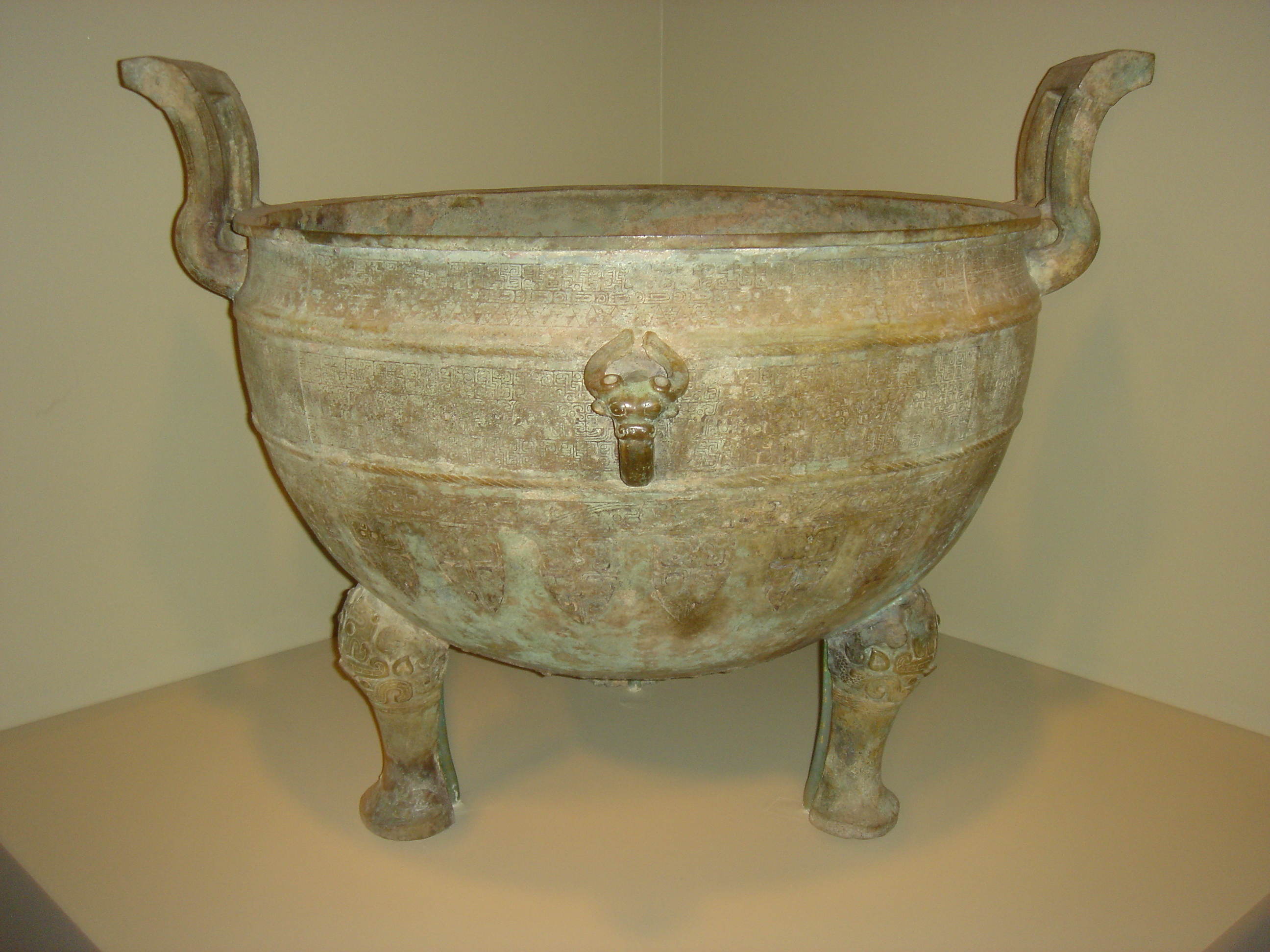 A Chinese Eastern Zhou Dynasty bronze ding vessel, a ritual food container, 7th to 6th century BC. The smale scale motif decorations incised into this bronze vessel are reminiscent of the broad ribbon-like bands of dragons on vessels dating to the 8th century BC. From the Freer and Sackler Galleries of Washington D.C. Author: User:PericlesofAthens Date: August 3, 2007